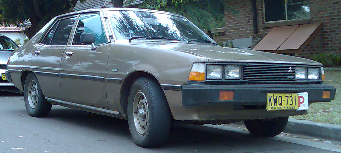 1980 Mitsubishi Sigma (GH) GL sedan. Photographed in Gymea, New South Wales, Australia.